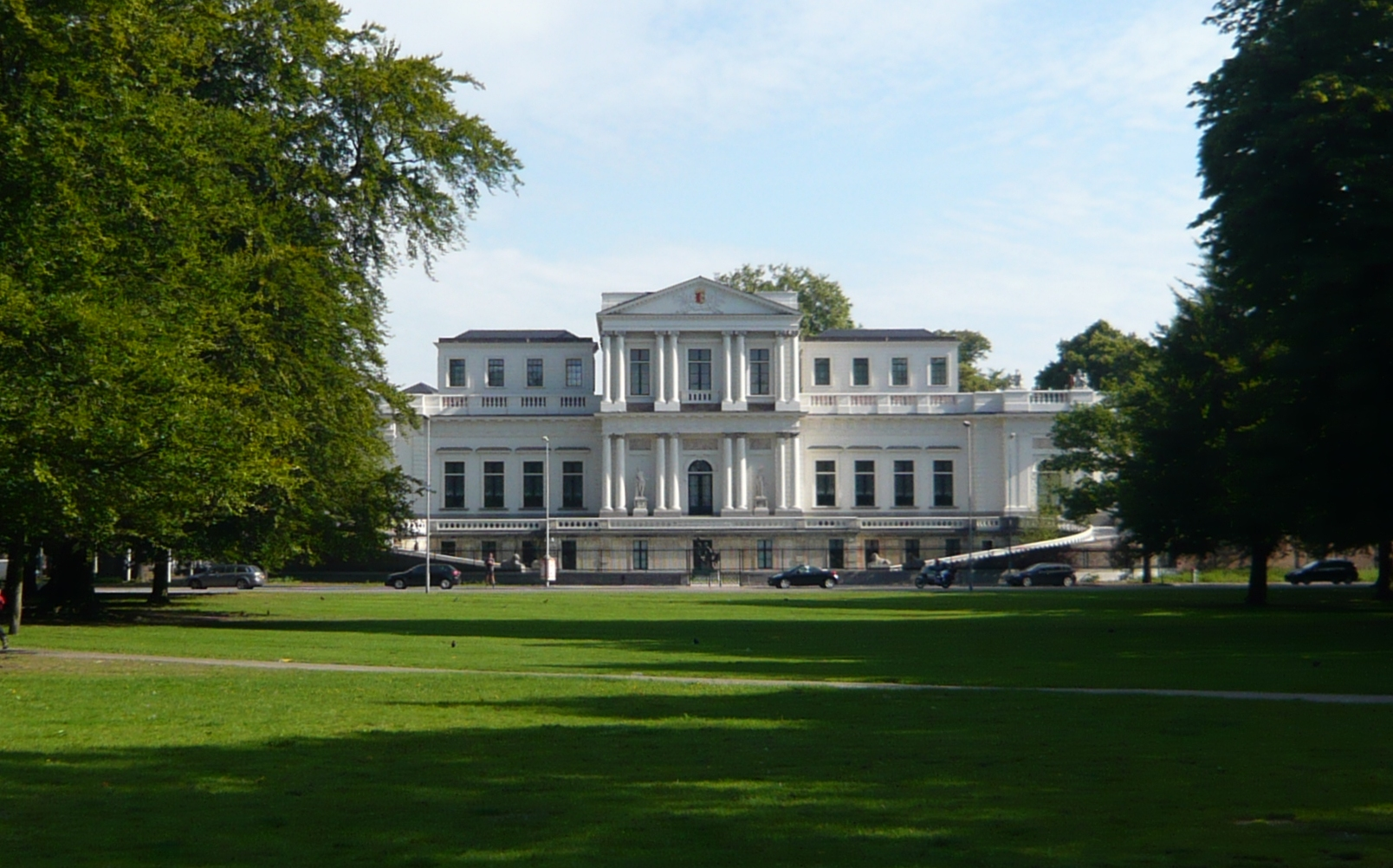 Villa Welgelegen on the Paviljoenslaan, Haarlem, after 2009 restoration. View from Haarlemmerhout park.